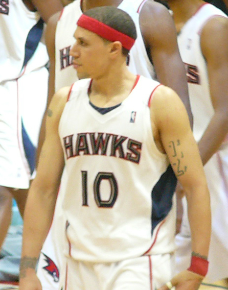 User:Chrisjnelson agreed to license this image of Mike_Bibby2.jpg under a free attribution license.